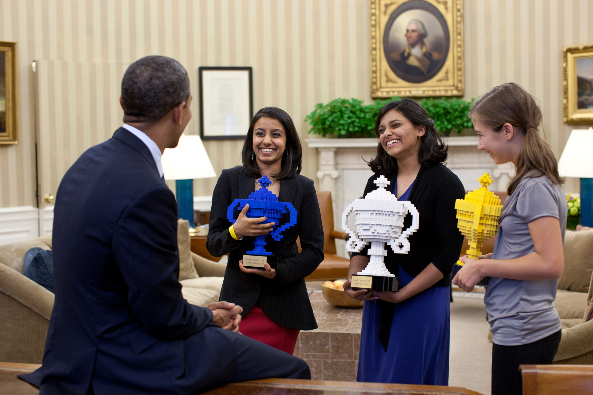 President Barack Obama congratulates Google Science Fair winners, from left, Naomi Shah, Shree Bose, and Lauren Hodge in the Oval Office, Oct. 3, 2011. (Official White House Photo by Pete Souza) This photograph is provided by THE WHITE HOUSE as a courtesy and may be printed by the subject(s) in the photograph for personal use only. The photograph may not be manipulated in any way and may not otherwise be reproduced, disseminated or broadcast, without the written permission of the White House Photo Office. This photograph may not be used in any commercial or political materials, advertisements, emails, products, promotions that in any way suggests approval or endorsement of the President, the First Family, or the White House. Ê